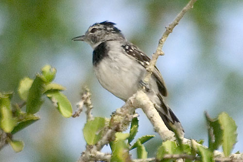 Pectoral Antwren (Herpsilochmus pectoralis) Jeremoabo, Bahia, Brazil